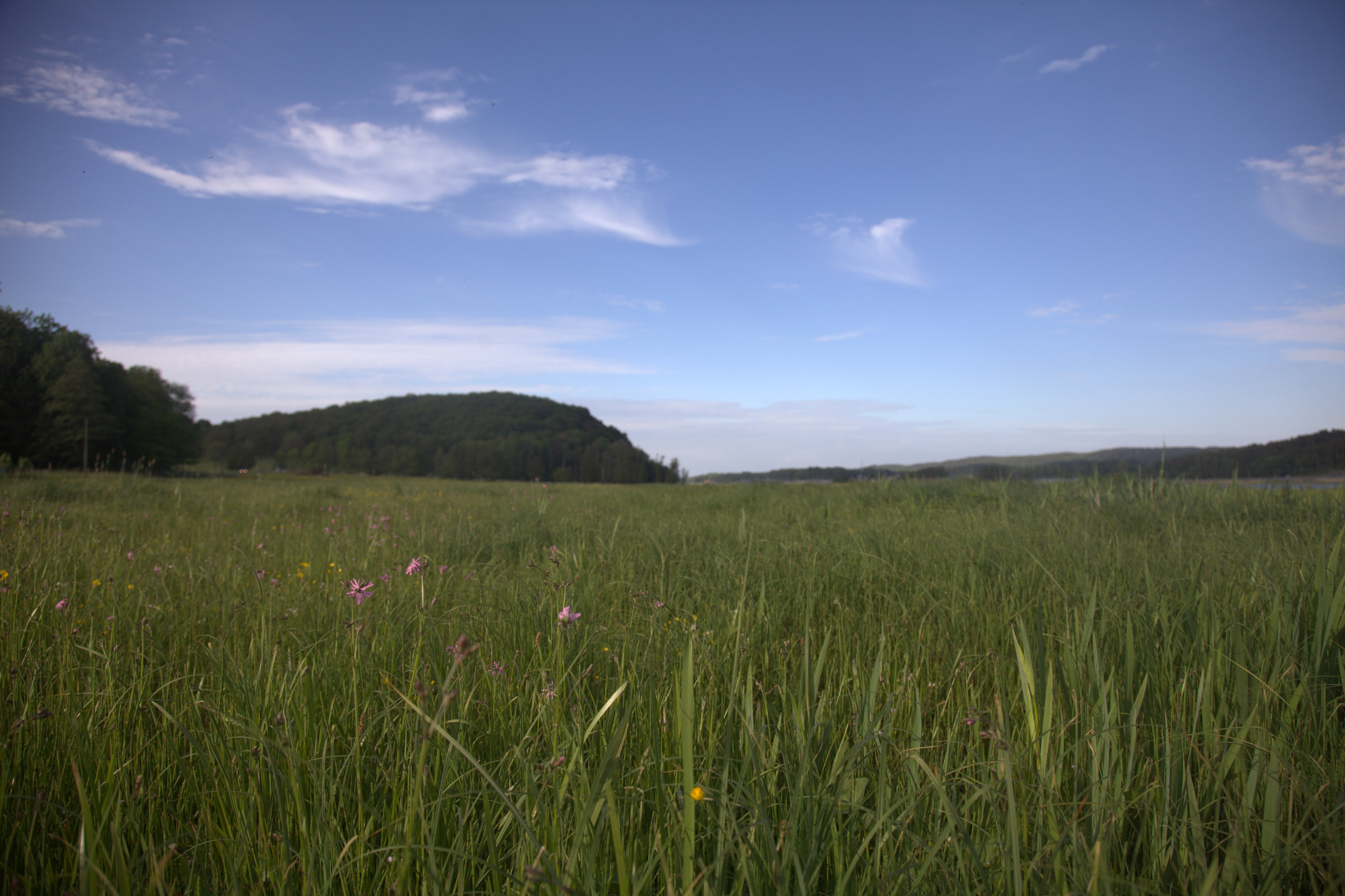 View of the "mountain" Marieberg from south. Göta river to the right.